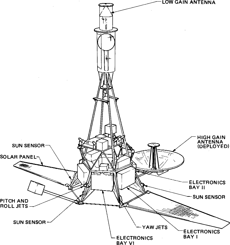 Ranger 1 and Ranger 2 spacecraft design